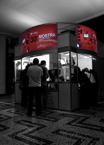 The Film Festival Central at Conjunto Nacional, Paulista Avenue - 30th São Paulo International Film Festival